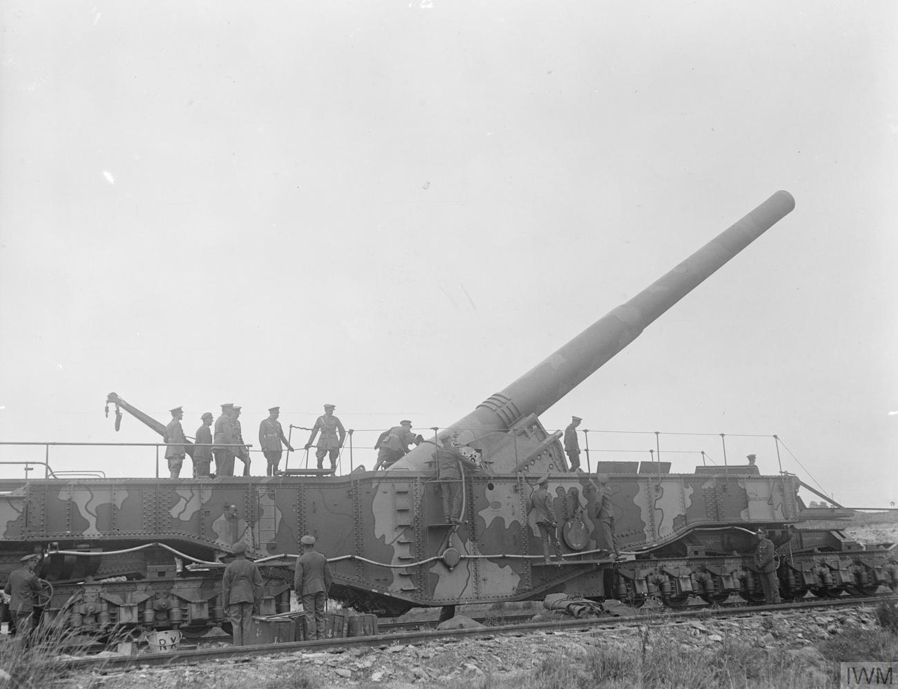 King George V inspects H.M. Gun "Boche Buster", a 14 inch naval gun on railway truck, at Marœuil, 10 km NW of Arras, France, 8th August 1918. Battle of Amiens. Comment : Other photographs show Boche Buster, underlined, painted on the barrel, this photograph does not. Boche Buster can be faintly seem painted on the side of the front end of the box structure above the bogies. The cable running at head height along the lower side and up to the gun is a voice communication tube.